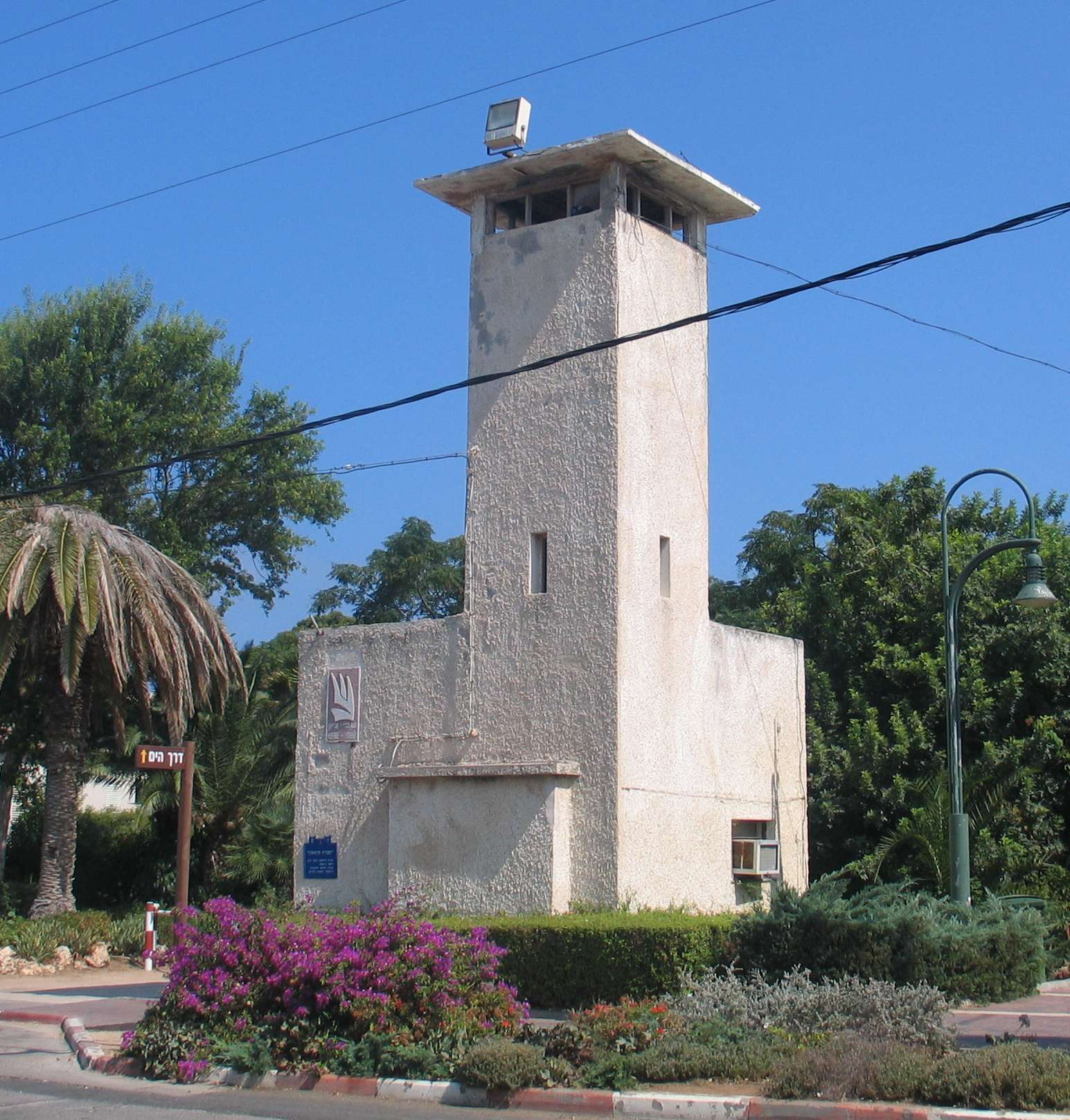 First building (built in 1940) of Shavey Tsion, Israel.